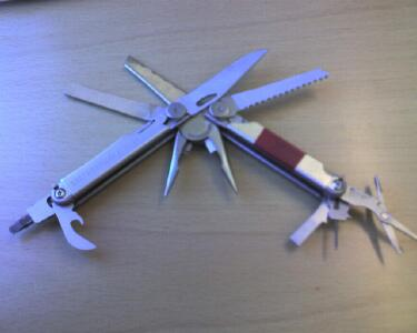 A Leatherman Wave multitool with all tools unfolded. Taken and released into the public domain by User:Kallemax